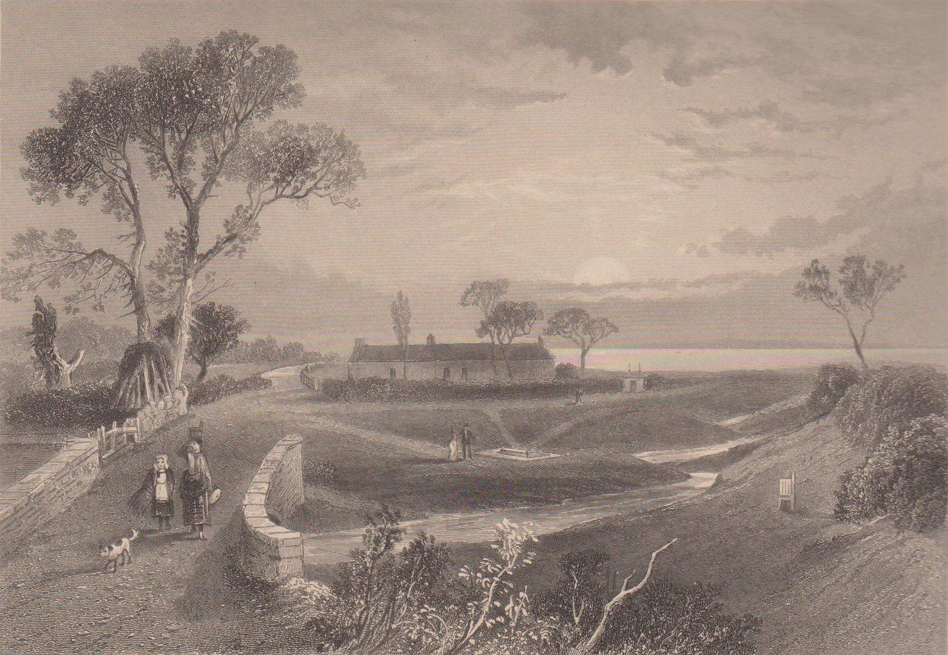 The Brow Well, Ruthwell, Scotland in circa 1800. Site of Robert Burns 'health' treatment six days before his death.